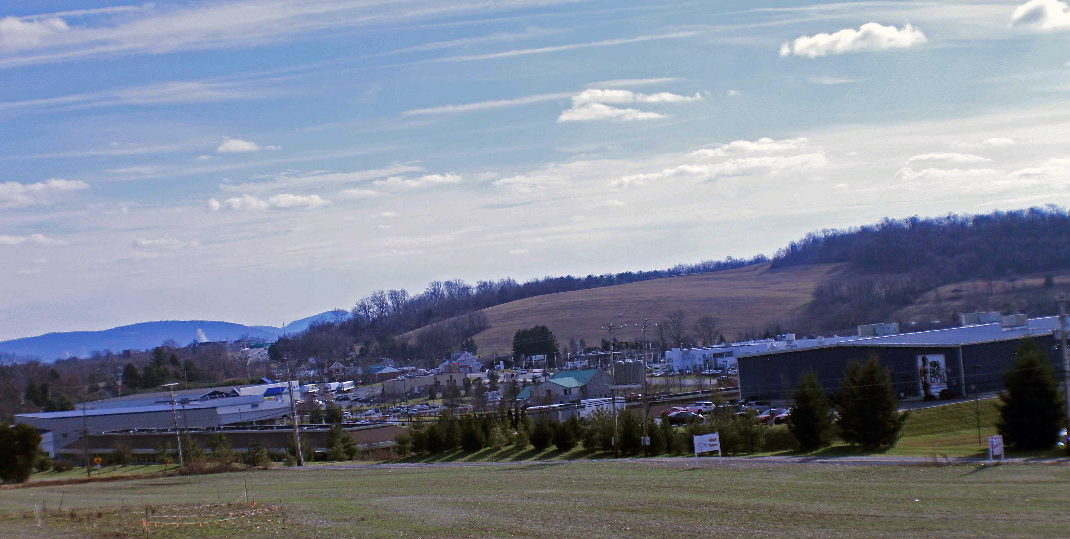 A view from the north above Leinbachs